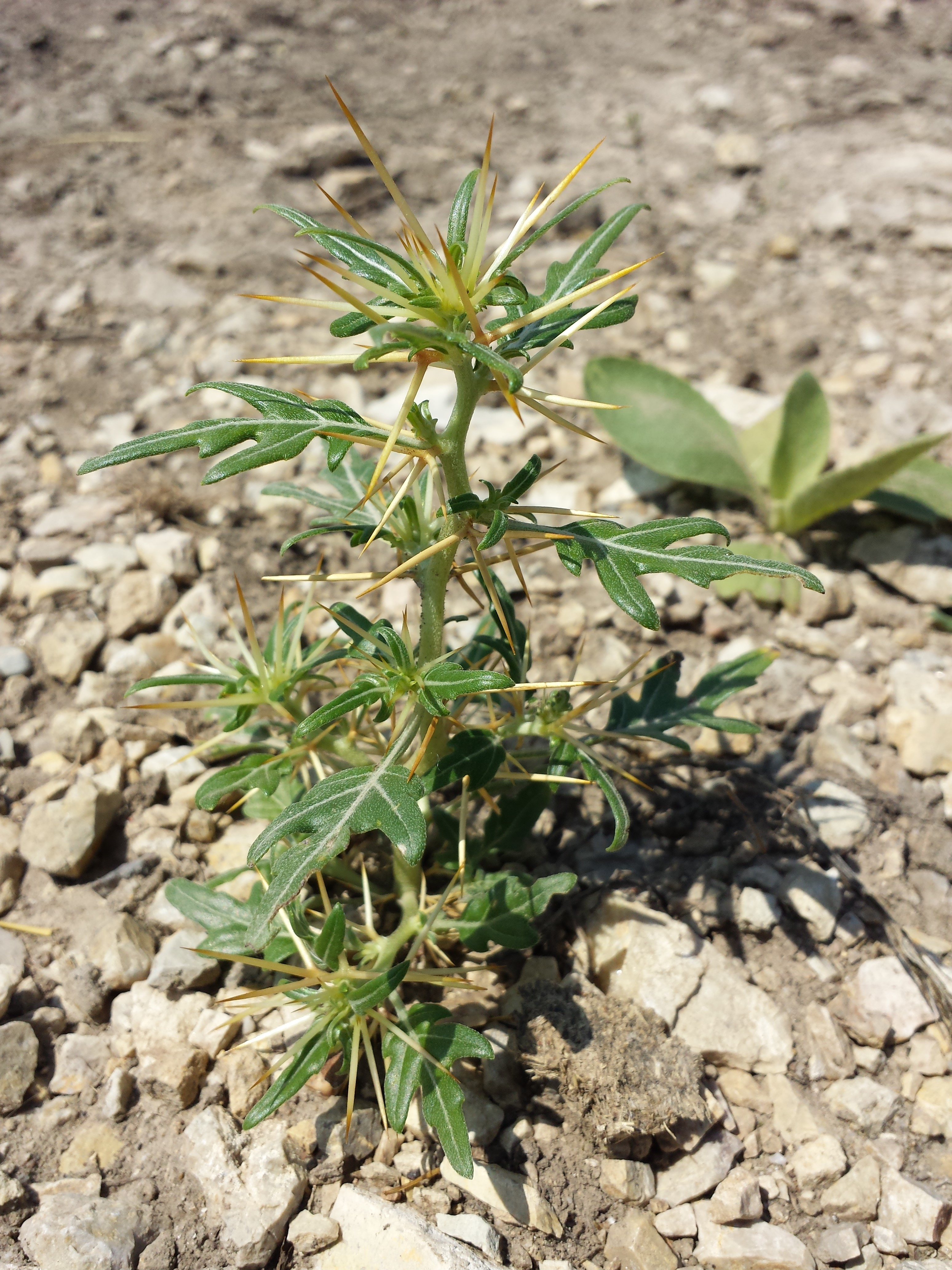 Habitus Taxonym: Xanthium spinosum ss Fischer et al. EfÖLS 2008 ISBN 978-3-85474-187-9; det. Gergely Király 2015-06-07 Location: Dolomite hills to the south of Öskü, Veszprém County, Hungary - ca. 200 m a.s.l. Habitat: sandy, desert area